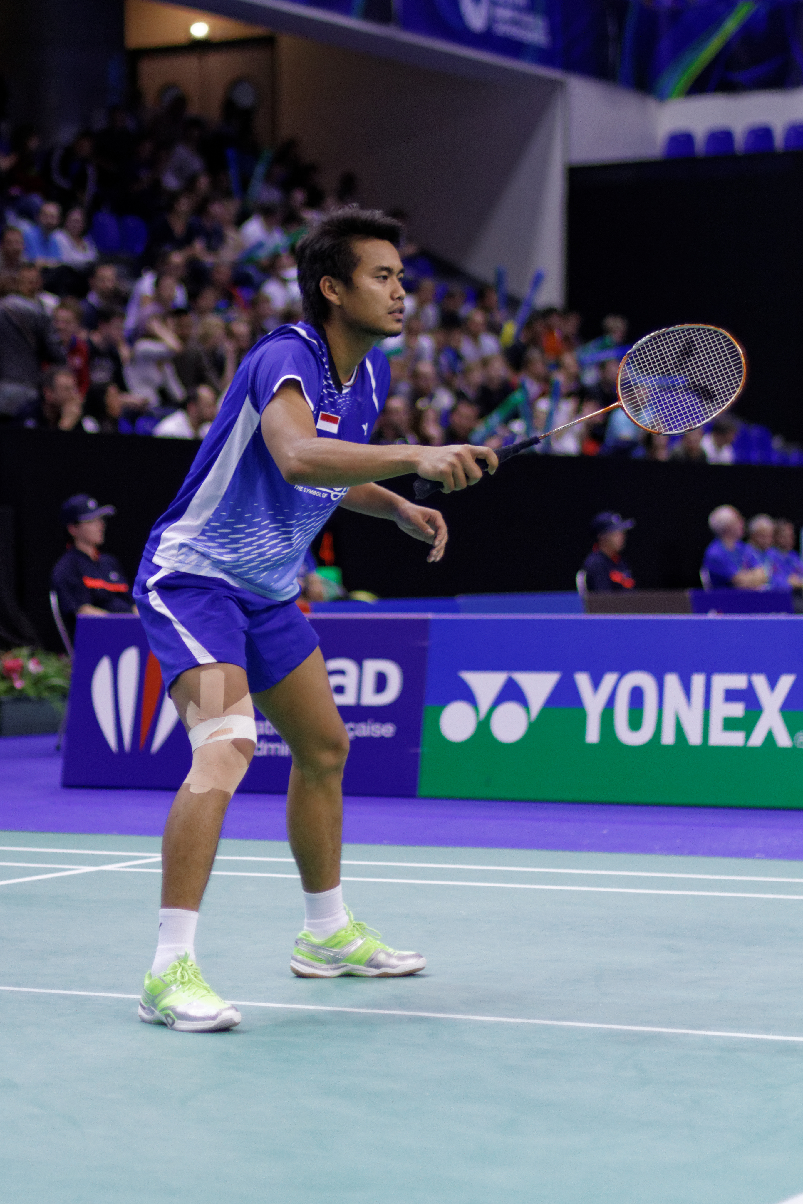 2013 French open. Mixed's doubles quarterfinal. Tontowi Ahmad - Liliyana Natsir vs Chris Adcock - Gabrielle White.